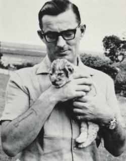 Courtesy of the Grindlay family. Larry Waterbridge with Mara the lioness shortly after she was found. This photograph was taken in Africa by Irene Grindlay in 1965; both subjects and author are deceased. A copy of this image appeared in Irene's biographical account of Mara's early years titled Velvet Paws, 1966. As the original image was taken from the family album, On behalf of the surviving family members, thank you. See also [1].